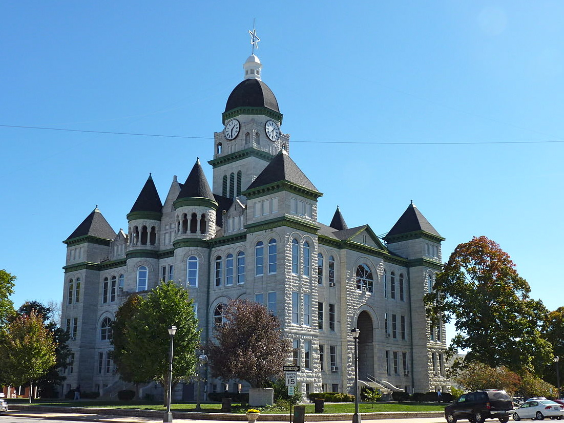 Photo of the Jasper County Courthouse in Carthage, Missouri.